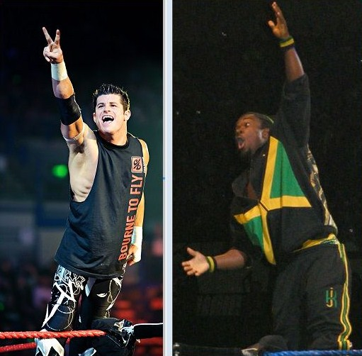 WWE wrestlers Evan Bourne and Kofi Kingston, who form the tag team Air Boom.